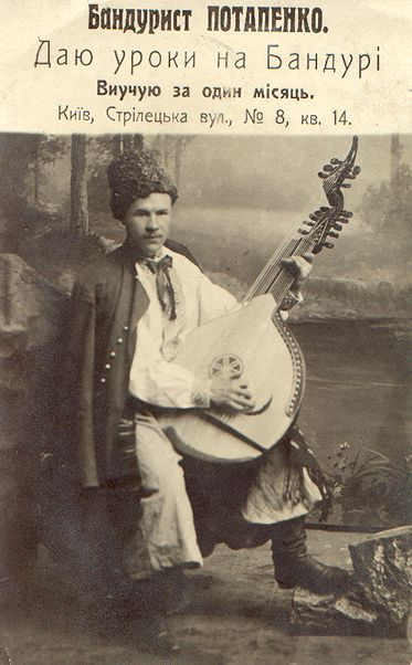 A postcard featuring an advertisement for bandura lessons by the Ukrainian bandurist Vasyl' Potapenko in Kiev, Ukraine.